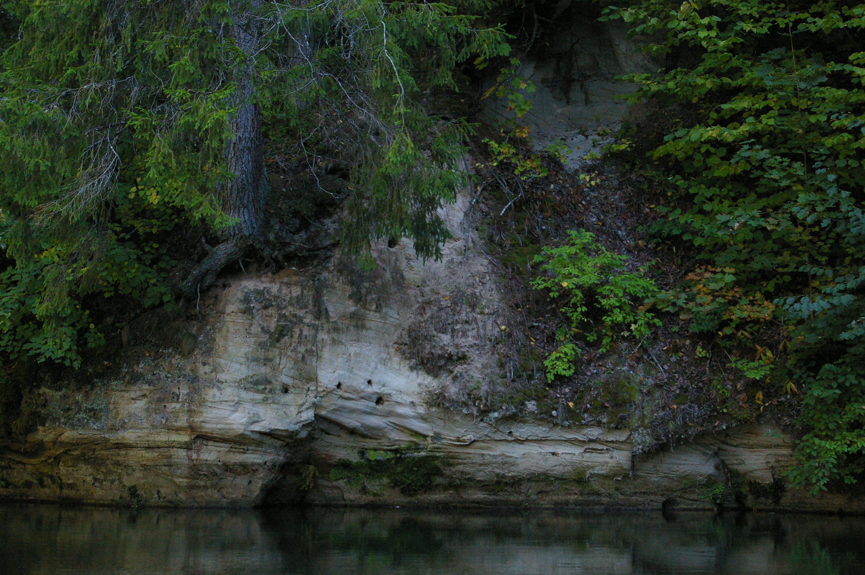 Kassimägi Ahja paremal kaldal Kiidjärvel